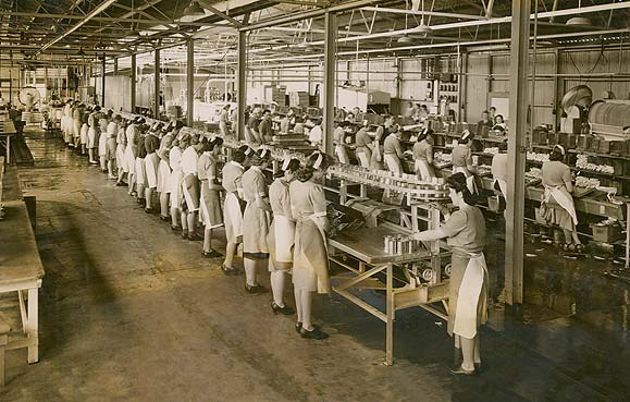 Women working in an asparagus cannery, Bathurst (NSW), Australia. Dated: No date Digital ID: " 12932-a012-a012X2443000172 Rights: We'd love to hear from you if you use our photos. Many other photos in our collection are available to view and browse on our website using " Photo Investigator.